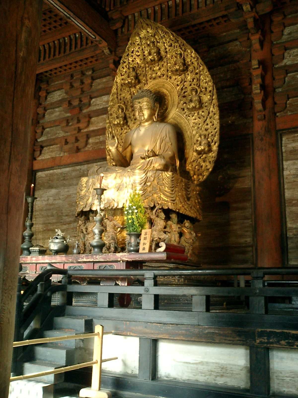 Kyoto, Japan